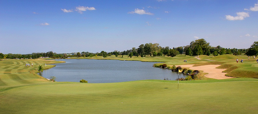 View of the greens and lake at the Pilar Golf Club, in Pilar, Buenos Aires Province, Argentina.